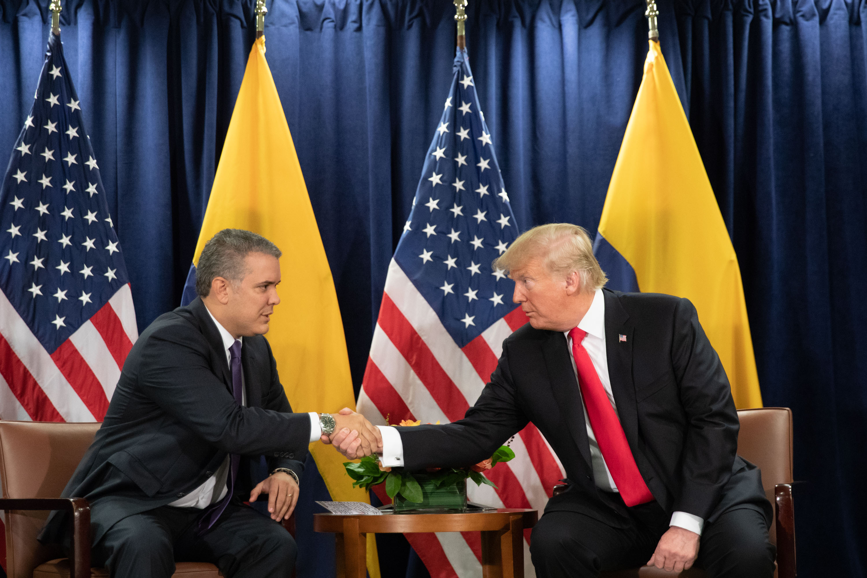 President Donald J. Trump shakes hands with the President of the Republic of Colombia Ivan Duque Marquez prior to participating in a bilateral meeting Tuesday, Sept. 25, 2018, at the United Nations Headquarters in New York. (Official White House Photo by Shealah Craighead)